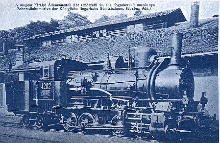 MÁV 41 in postcard